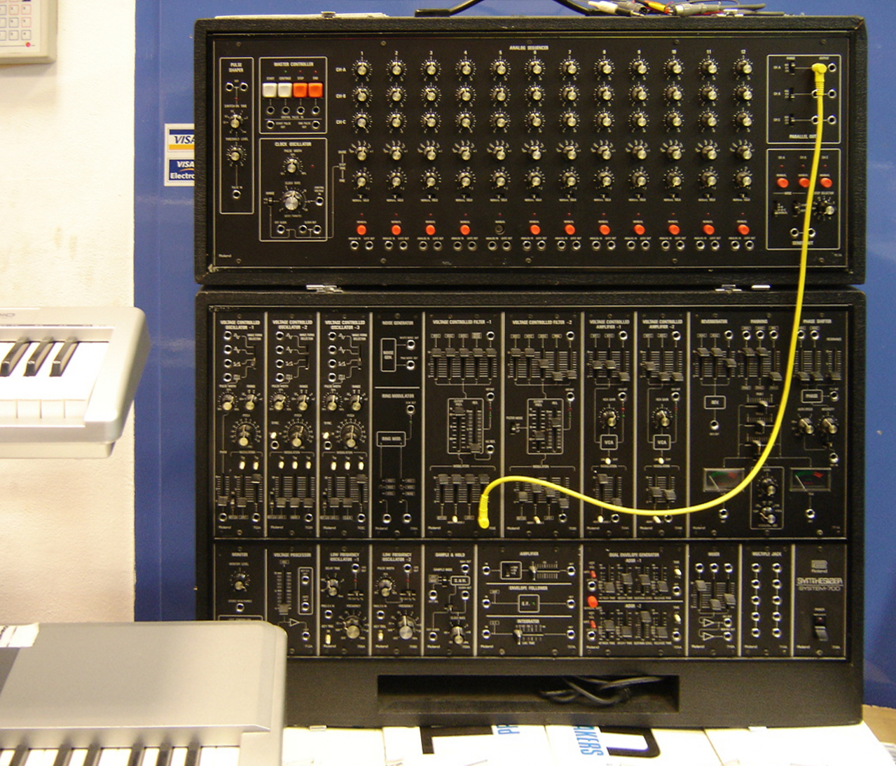 Roland System 700 (1976) This store was very cool. Check the vintage moogs and tubes in there. The owner saw me looking in the window and called me into the store. He showed me this old Roland. Wow. It was as old as me and it looked like it was brand new. Roland System 700 He said it's the nicest one in the Netherlands and I believed him. If anyone wants some serious vintage equipment this is the place for it.